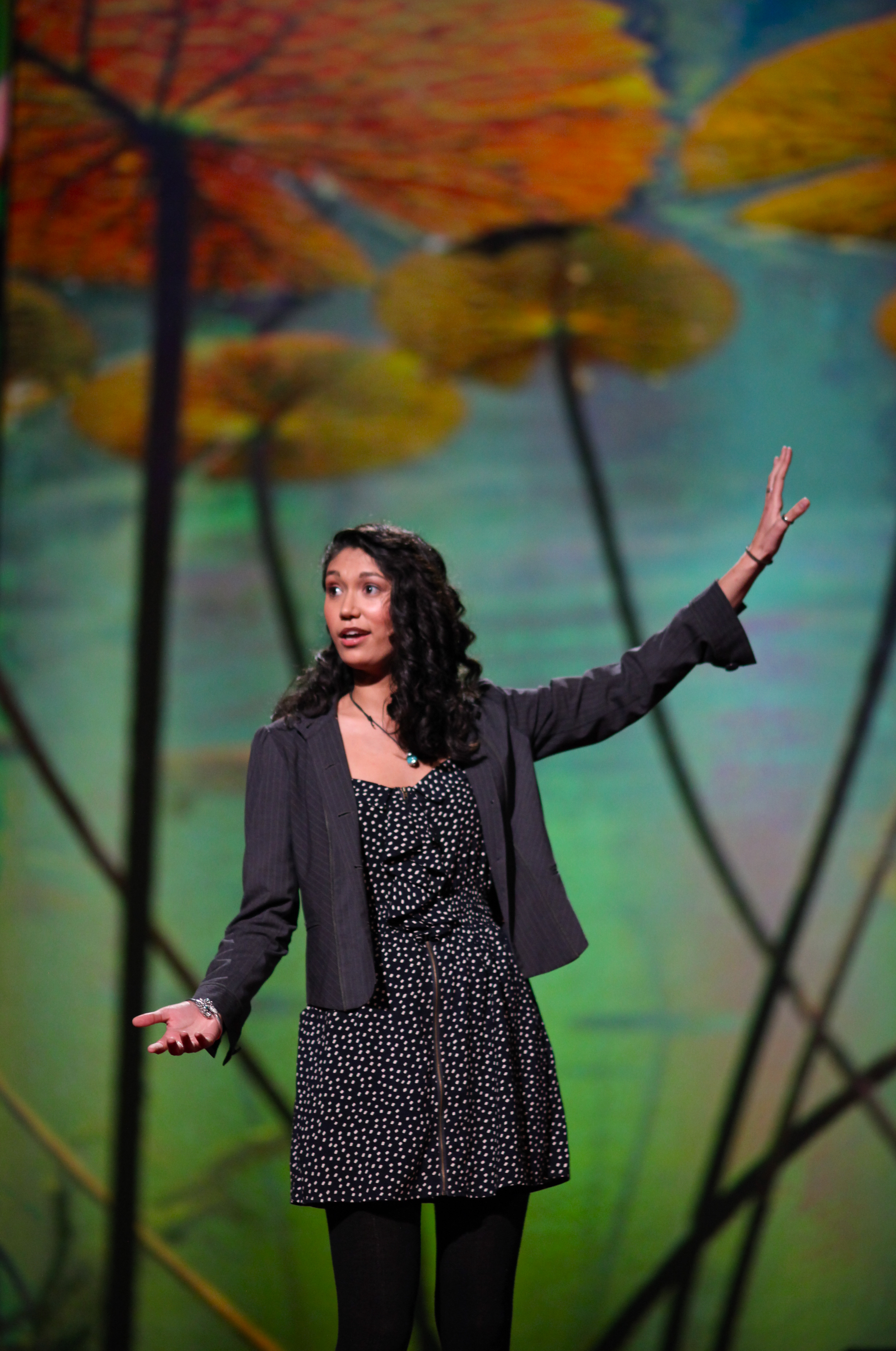 Poet Sarah Kay performing at TED conference